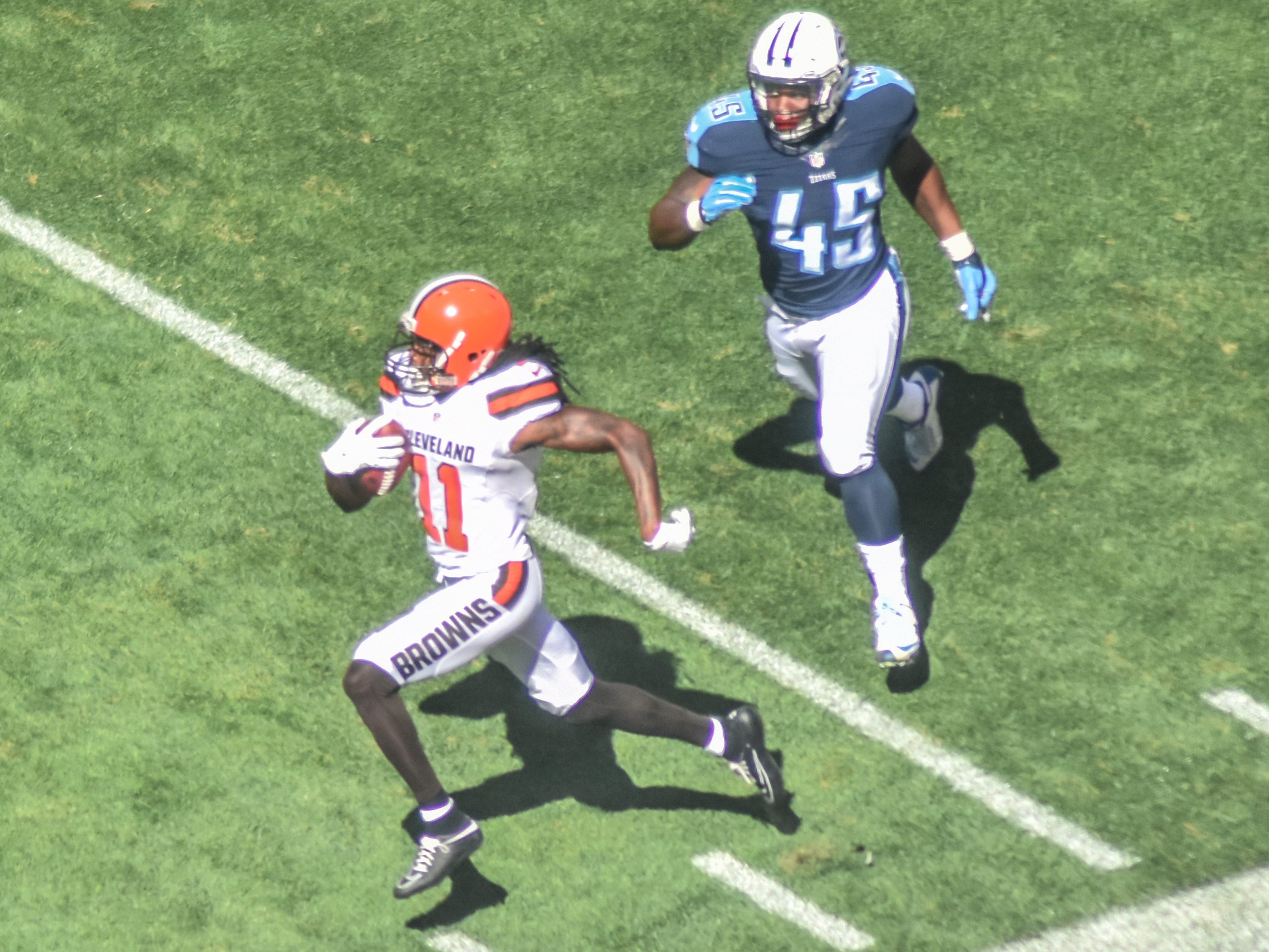 Travis Benjamin vs Tennessee Titans in 2015